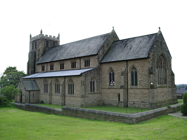 St Pauls Church, Longridge